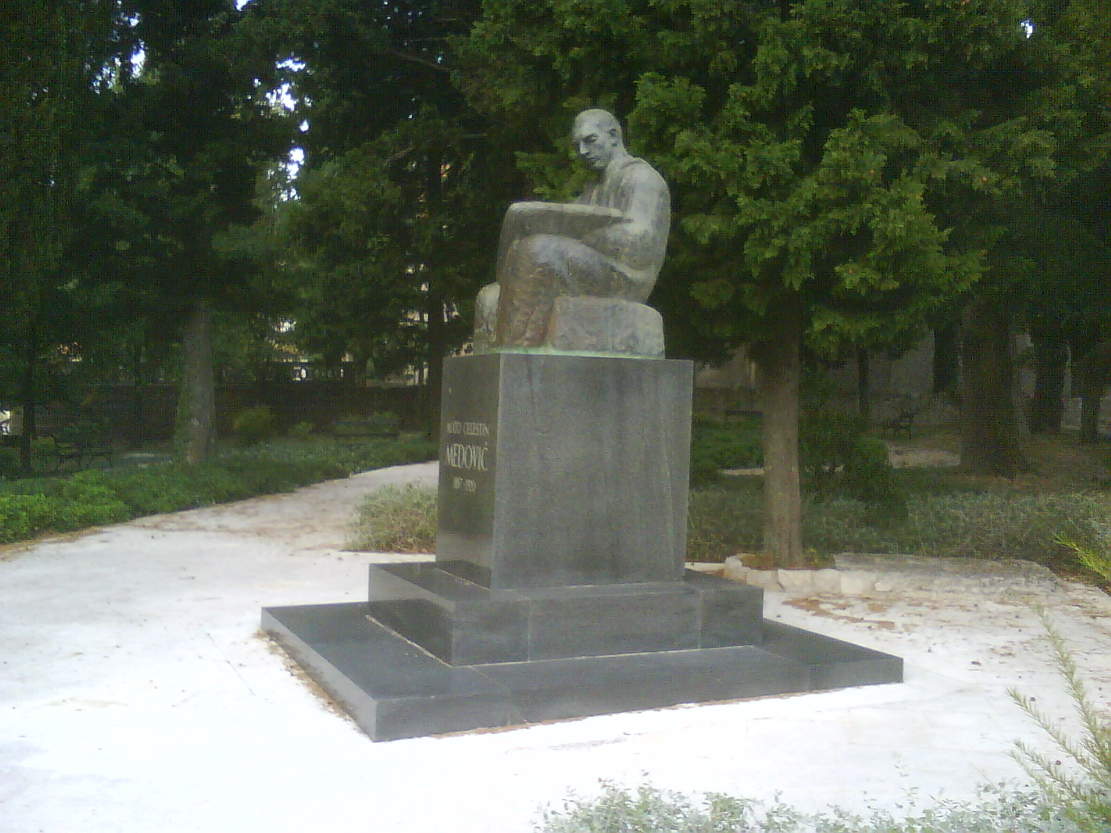 Mato Celestin Medović, monument in Kuna Pelješka